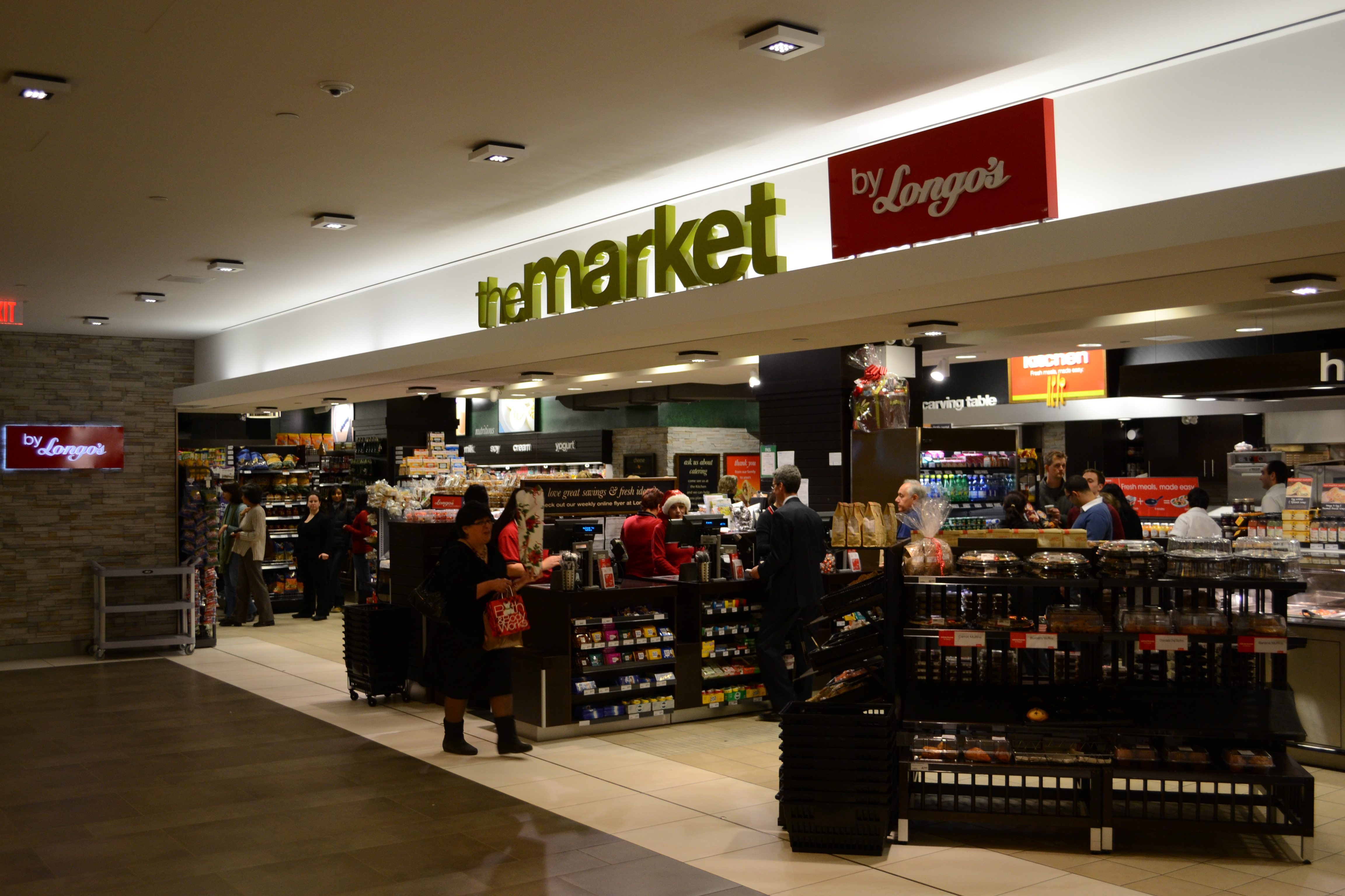 Longo's FCP (First Canadian Place) store.